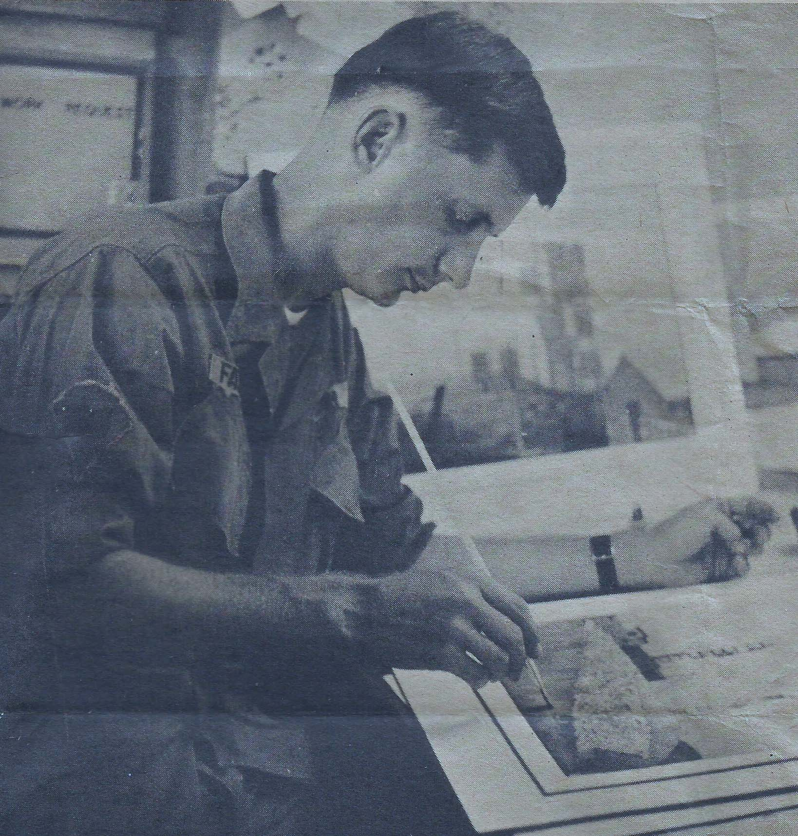 Vietnam Combat Artist Spec 4 David Fairrington puts the finishing touches on a scene from Vietnam. Fairrington was assigned to Combat Artists Team (CAT) VI serving in 1968.